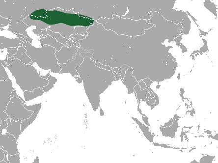 Steppe Pika (Ochotona pusilla) range